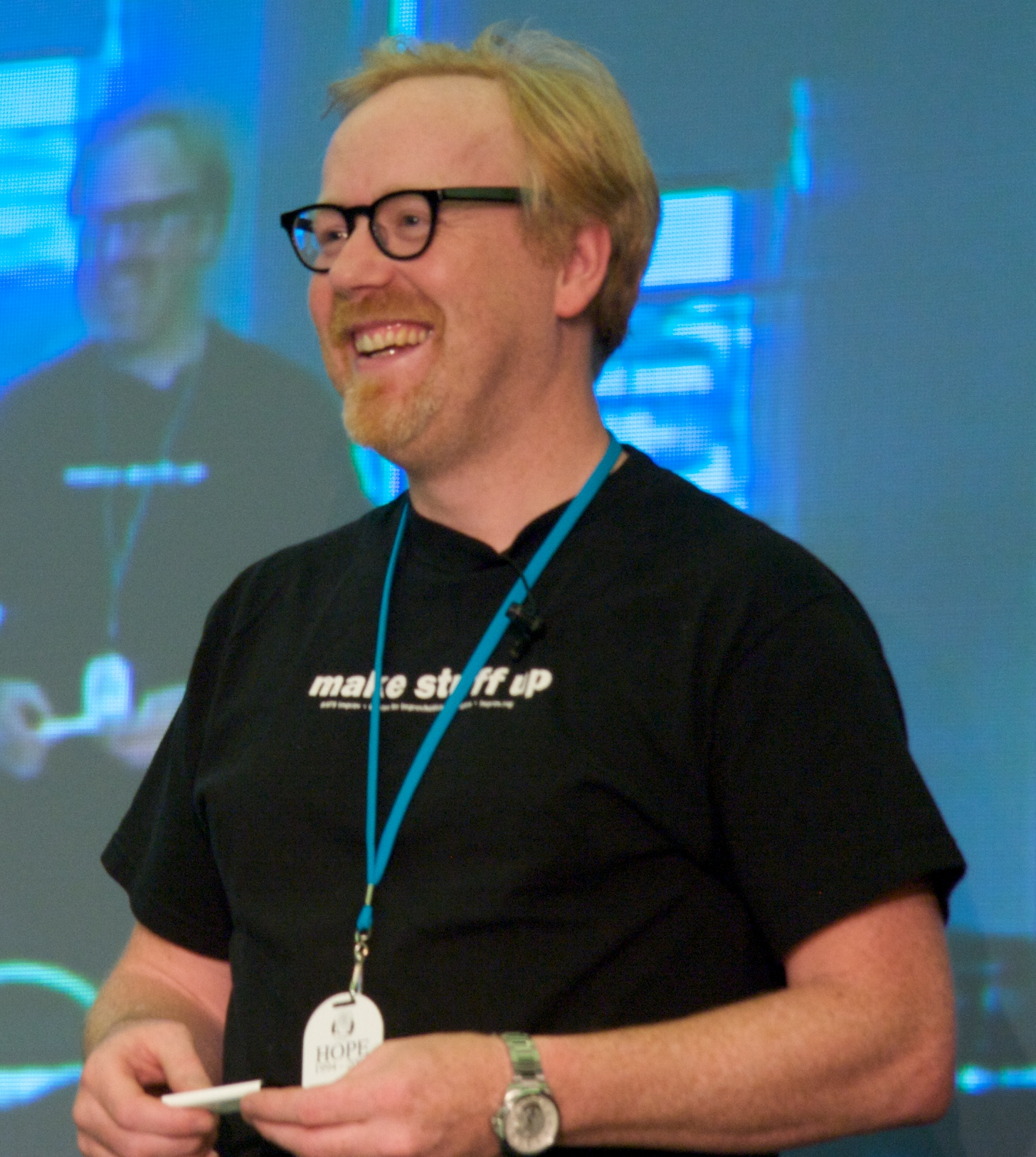 Losslessly cropped from original to show Adam better. Original upload log The original description page was here. All following user names refer to en.wikipedia. 2008-07-28 01:24 Porkrind 3456×2298×??? (2490933 bytes) Mythbuster :en:Adam Savage| presents at :en:H.O.P.E.|The Last Hope July 20th, 2008.